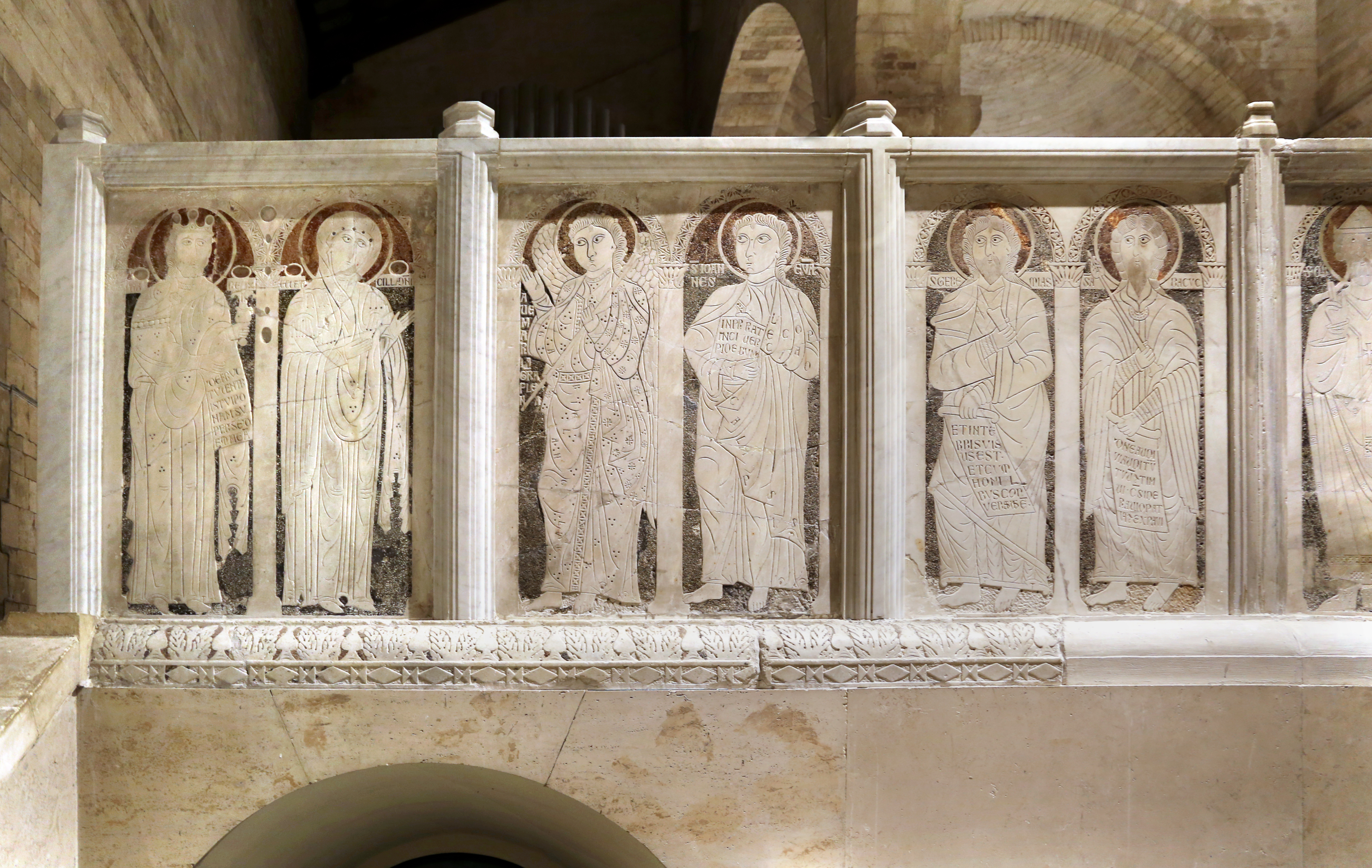 Night in Ancona